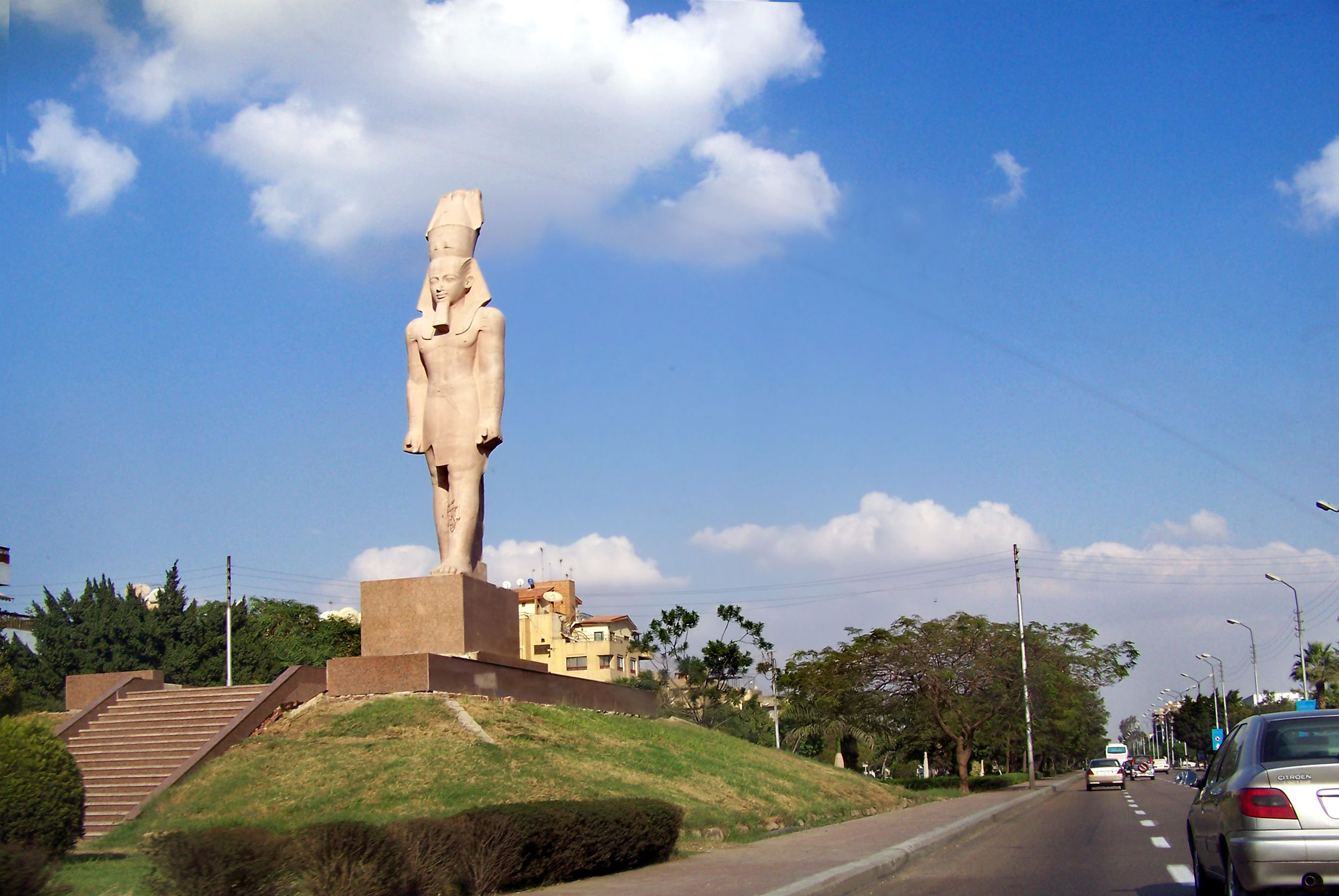 A replica of the Ramses II statue discovered in Memphis. The replica farewells tourists as they head into the airport on Salah Salem street.